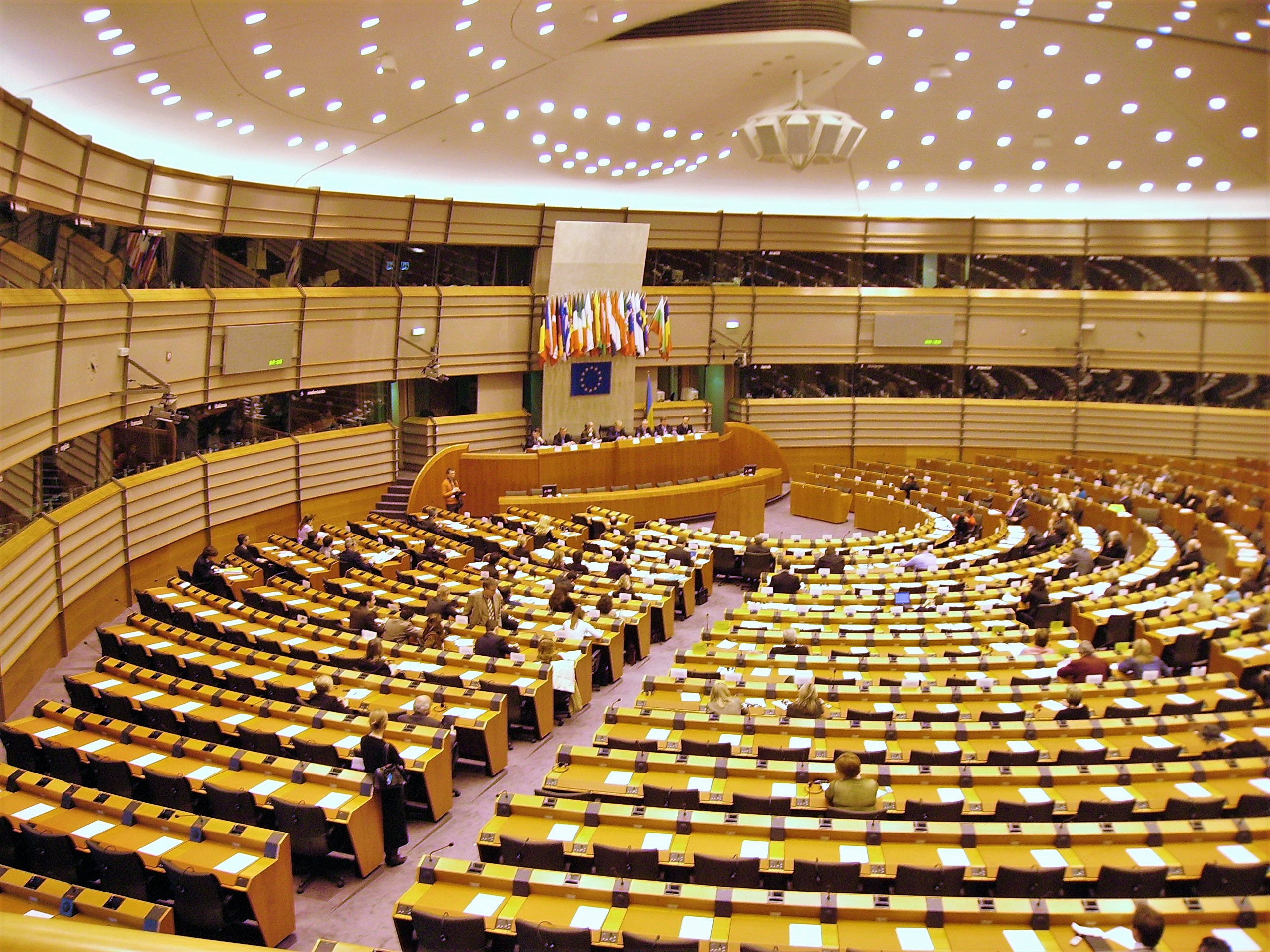 The inside of the European Parliament in Brussels in January 2006. Image by User.